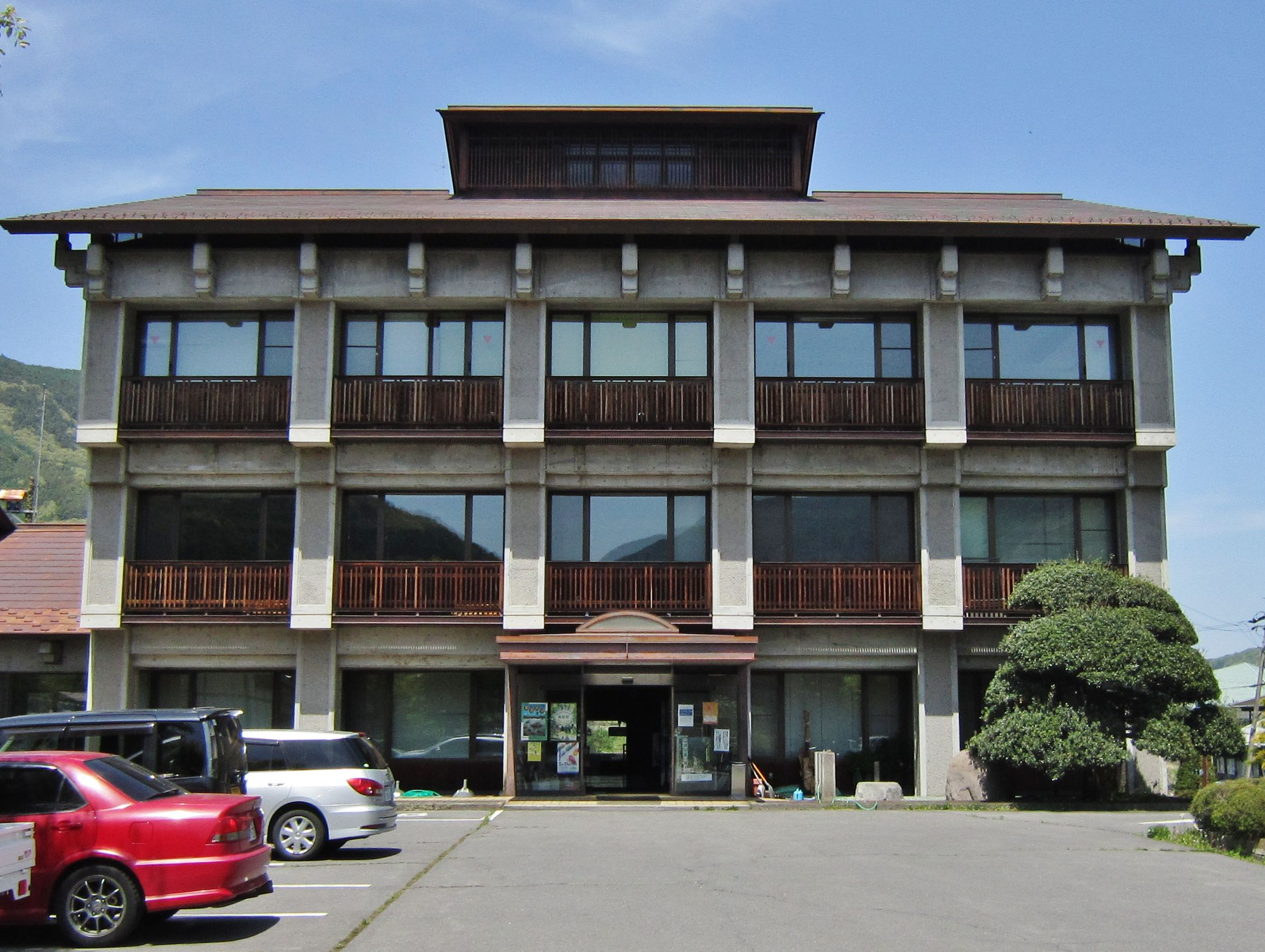 Nagawa town Wada branch office.